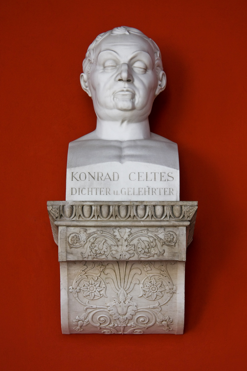 Bust of Konrad Celtes at the Ruhmeshalle ("Hall of fame"), München, Germany.